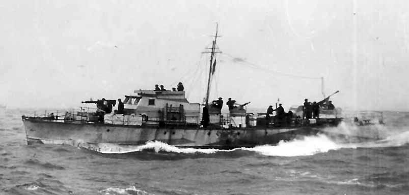 MGB 314 (14 Motor Gun Boat Flotilla)